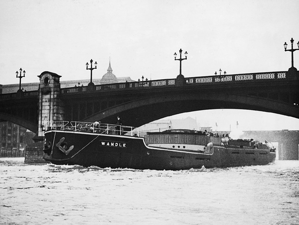 The SS Wandle, a British coastal collier owned and operated by the proprietors of Wandsworth gas works, passing under Southwark Bridge in London, England, UK.